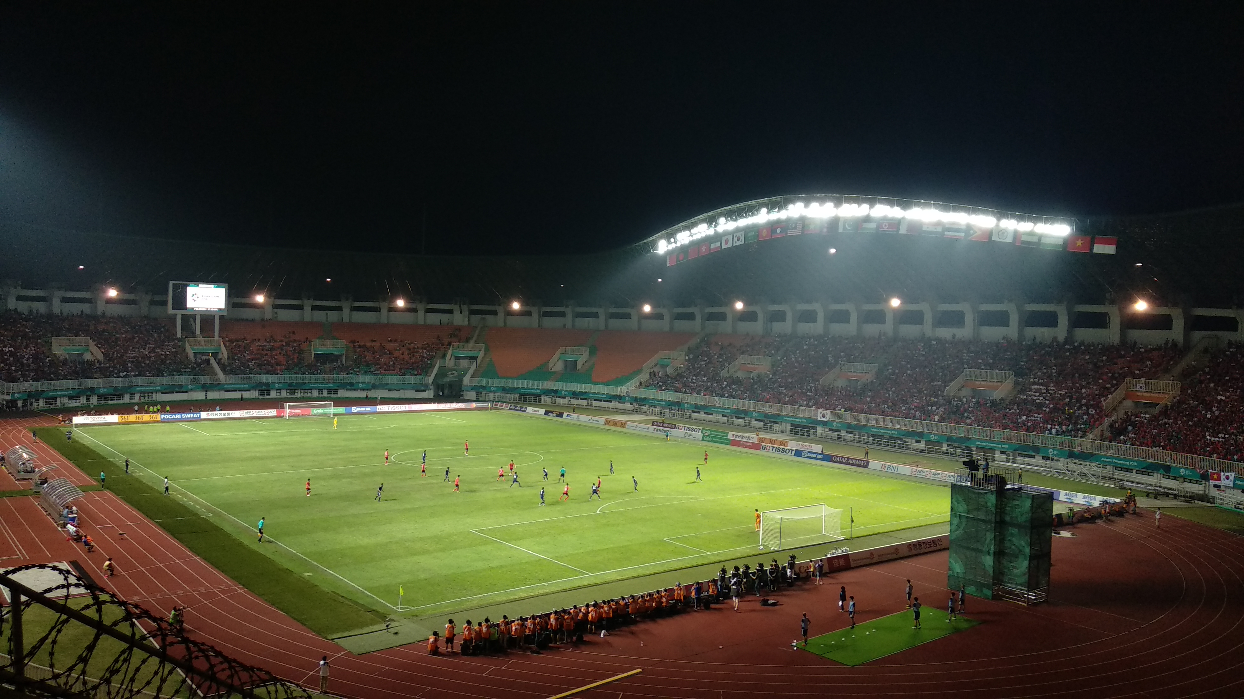 Pakansari Asian Games 2018